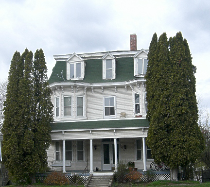 Almon Asbury Lieuallen House in Moscow, Idaho National Register of Historic Places site Robbie Giles 2007